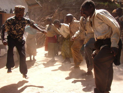 (Batwa,own work,1/15/02,Edirisa)